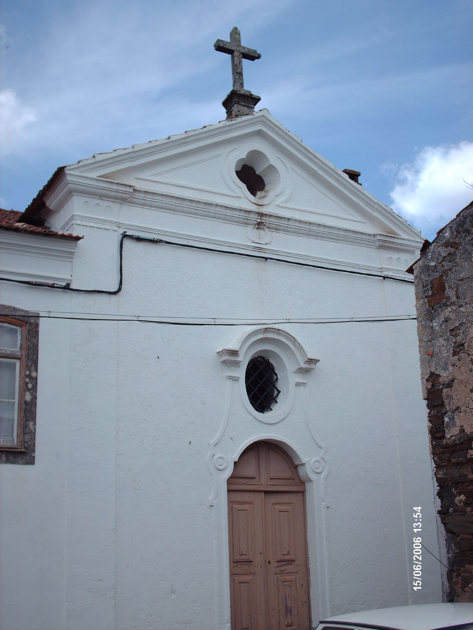 greja de Nossa Senhora da Conceição